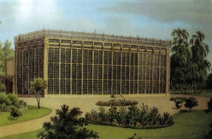 Pfaueninsel (isle of peacocks) near Berlin. The "Palmenhaus" (house of palmtrees). Painting from a vase, detail.